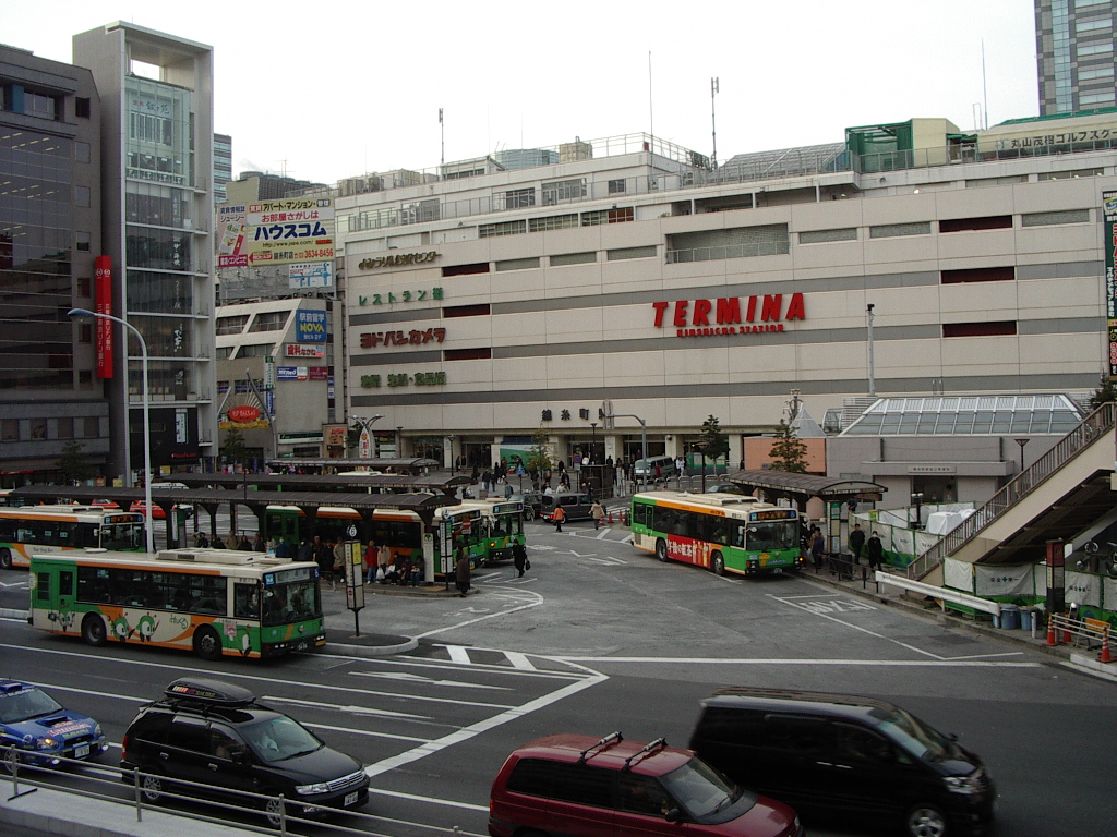 Kinshicho Station